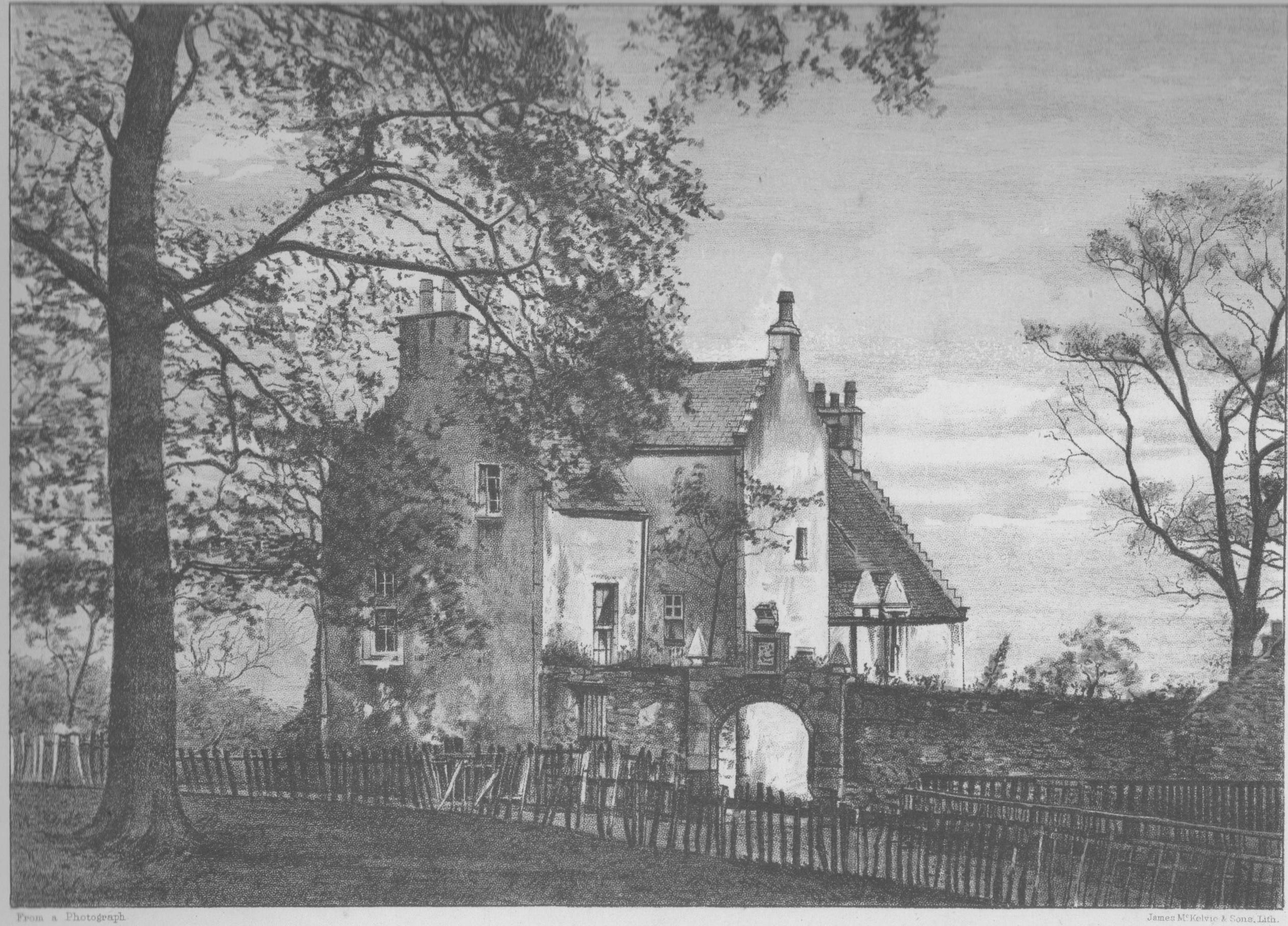 The Cartsburn Mansion House